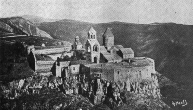 Tatev